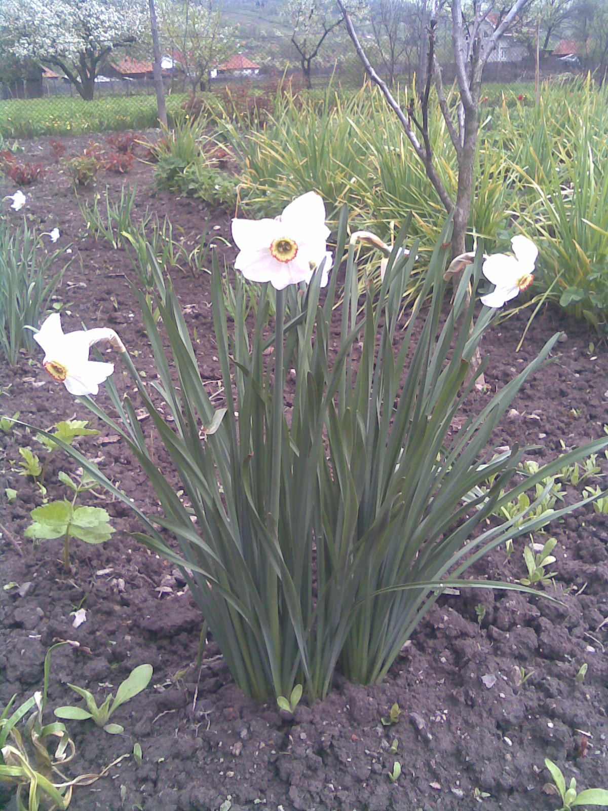 Poet's Daffodil, Nargis, Pheasant's Eye, Findern Flower, or Pinkster Lily (Narcissus poeticus) in my garden, in Lónyaytelep, Transylvania.